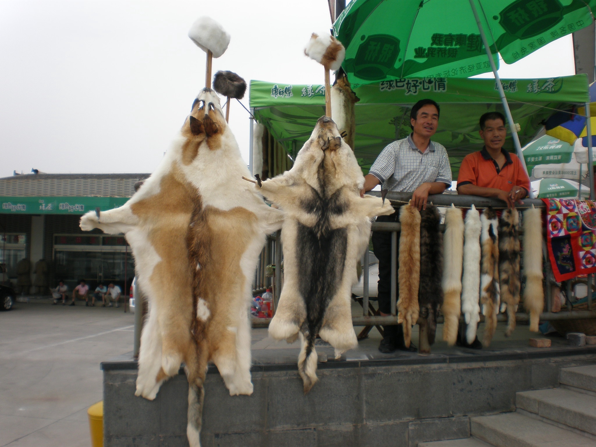 extremely cheap, the fox furs are like 20$ and wolf is 100$ and this is before bargaining! Furrier's notice: Probably the wolfs are dog skins, the fur chokers cats.